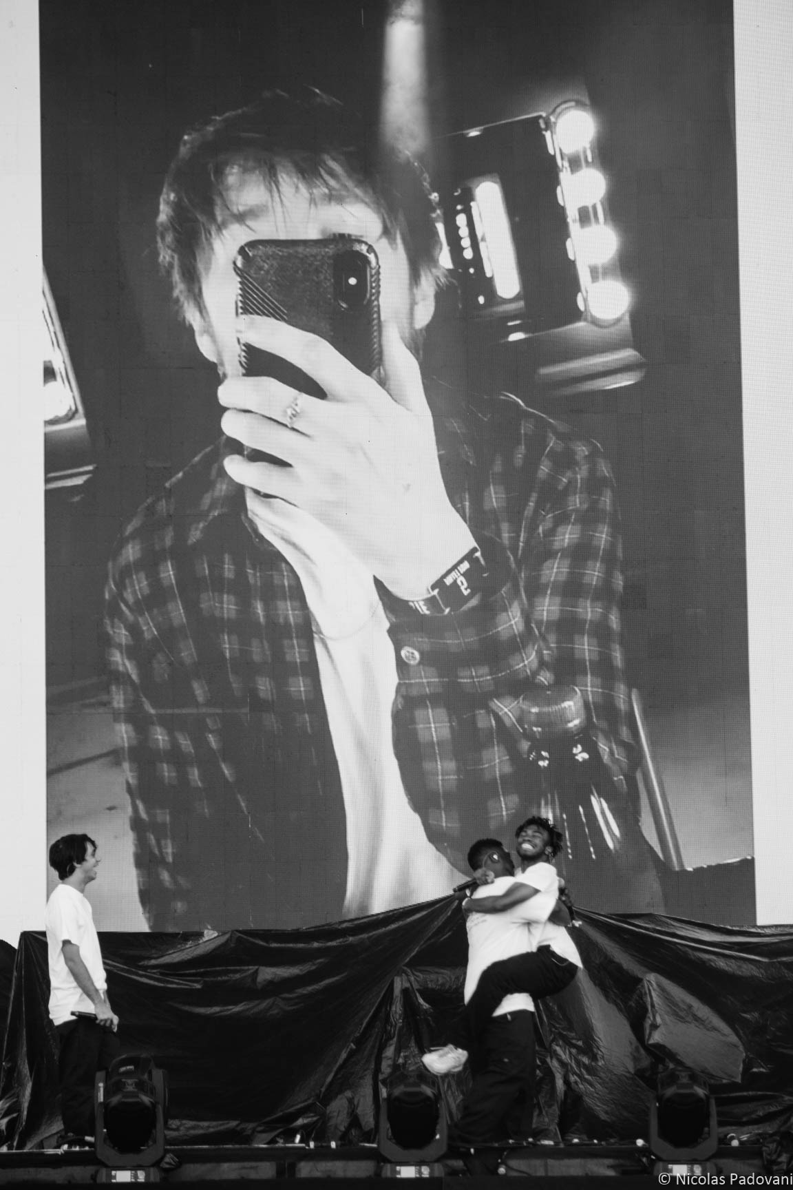 Brockhampton